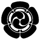 Family crest (mon) of the Kuno clan.